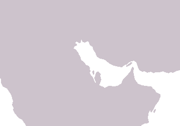 A blank map of the Persian Gulf of 2004, made by the uploader for Wikipedia.